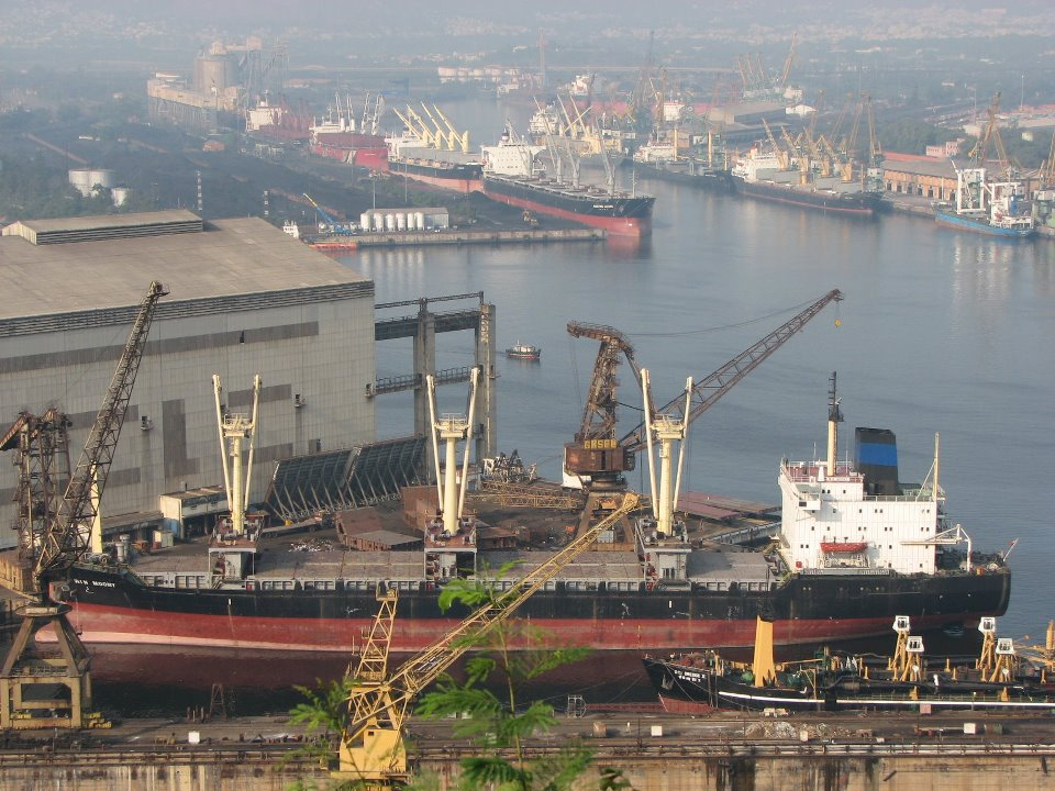 Shipbuilding yard at Visakhapatnam